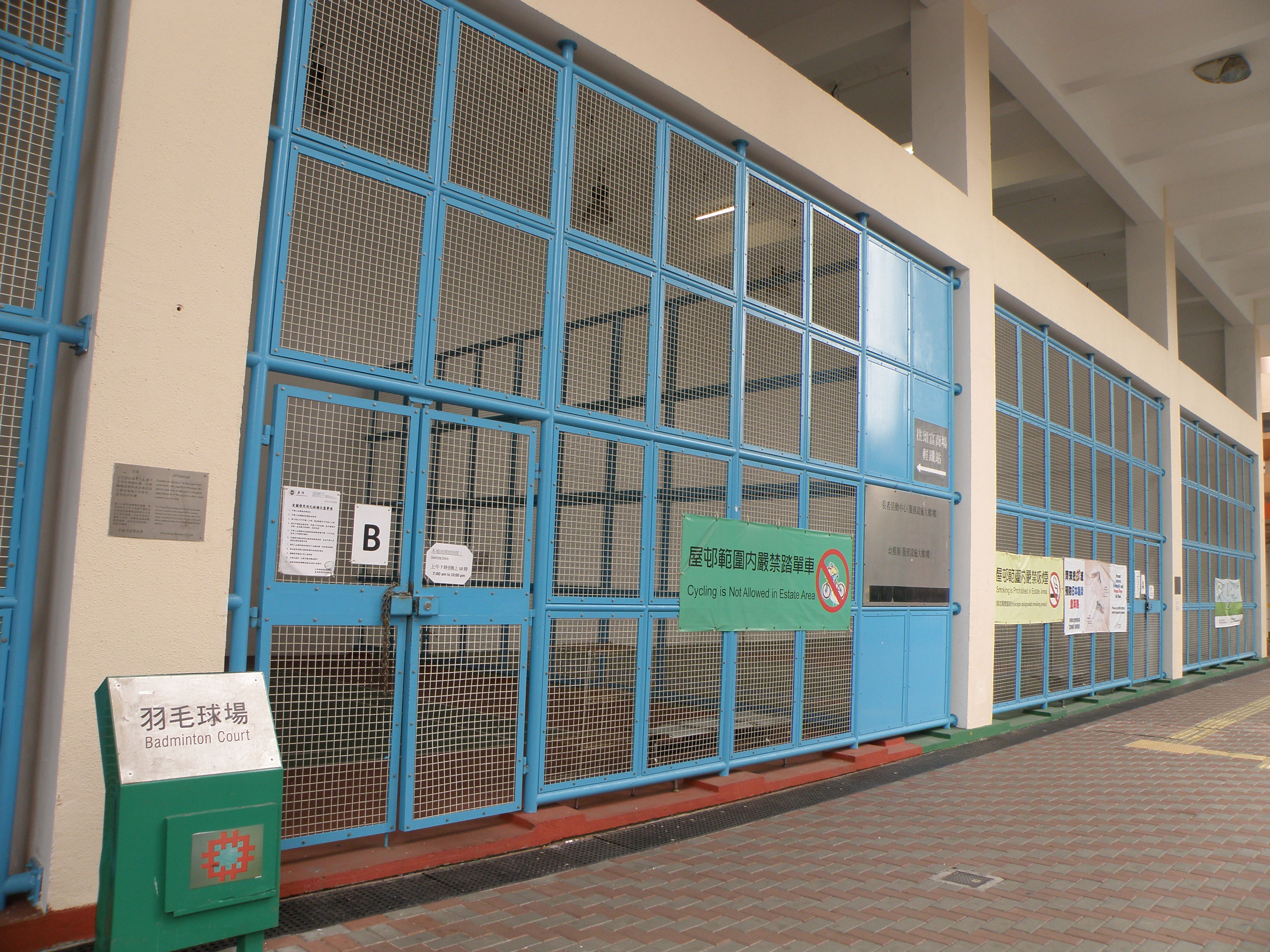 Tin Wah Estate in Tin Shui Wai, Hong Kong.